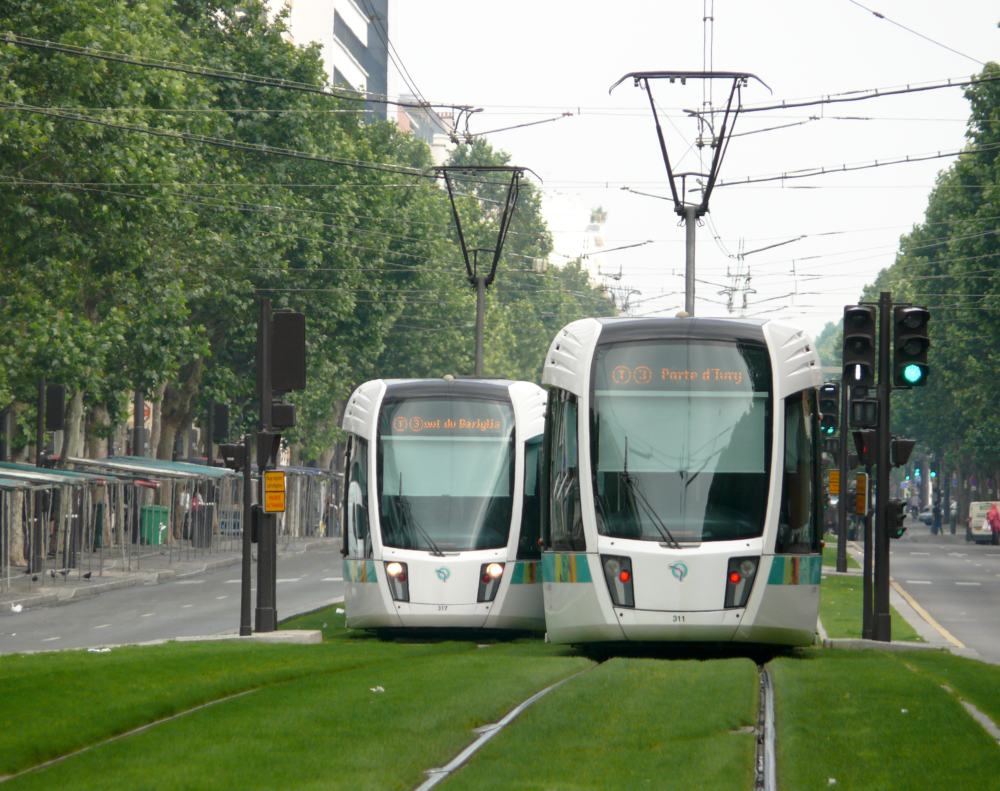 Two Citadis Alstom streetcars on Paris T3 line.